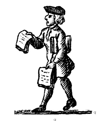 Revolutionary Guy